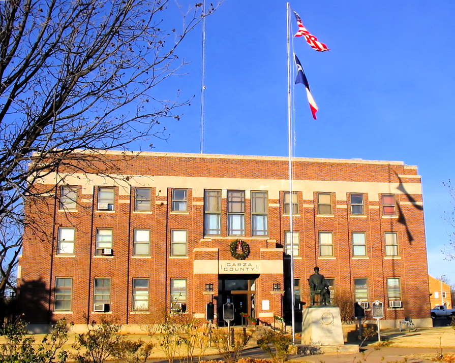 The Garza County, Texas Courthouse located at 33.1909° -101.3810° in Post, Texas, United States.